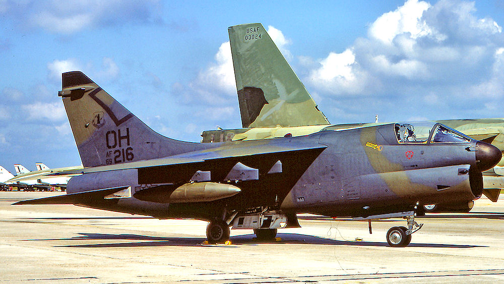 112th Tactical Fighter Squadron - Ling-Temco-Vought A-7D-5-CV Corsair II 69-6216 1971: Aircraft delivered to 355th Tactical Fighter Wing, Davis-Monthan AFB, AZ (C/N 046) Transferred to 112th Tactical Fighter Squadron, OH Air National Guard, 1979 Transferred to 412th Test Wing/445th Flight Test Squadron, 1990 Aircraft removed from flight duties, re-designated GA-7D Ground Trainer, 1992 Assigned to Grand Forks AFB, ND Currently a static display at Aviation Museum, Grand Forks AFB